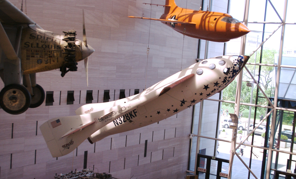 Photo of SpaceShipOne in the Smithsonian in Washington DC.